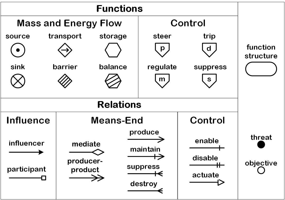 Graphical model elements defined in Multilevel Flow Modelling (MFM)